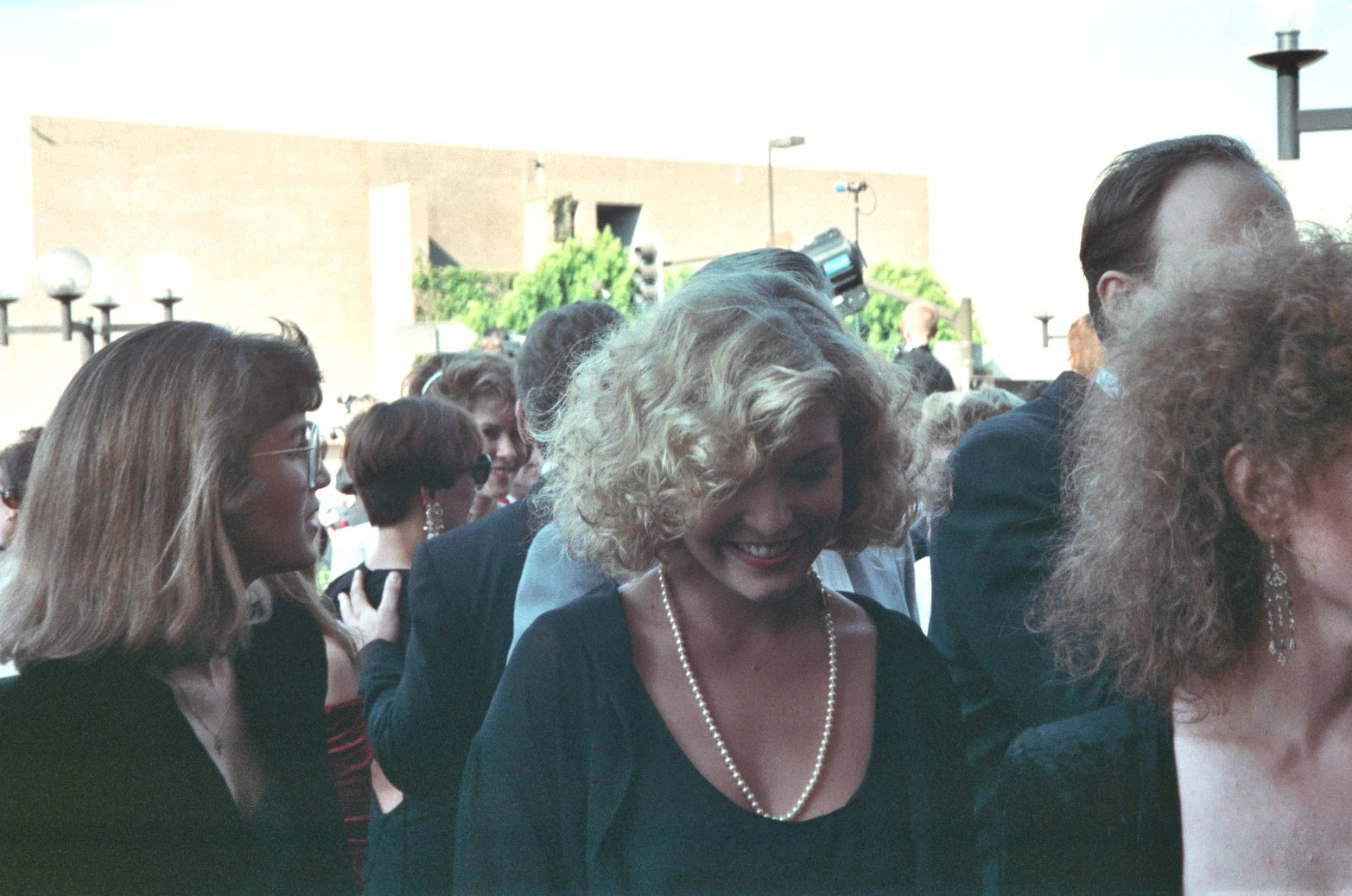 1990 Emmy Awards NOTE: Permission granted to copy, publish, broadcast or post any of my photos, but please credit "photo by Alan Light" if you can. Thanks. Scanned from the original 35MM film negative.